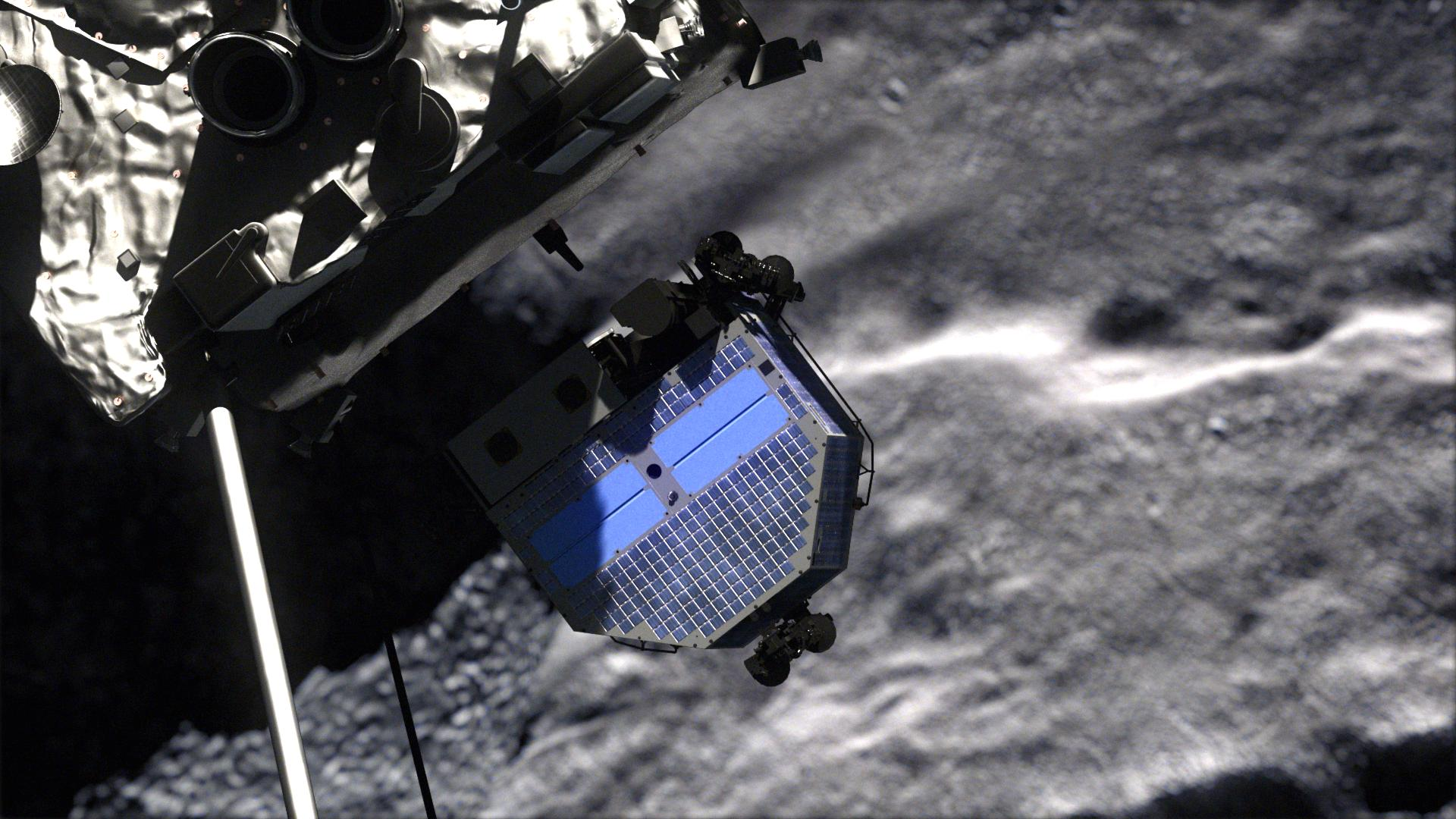 Rosetta and close-up of the Philae lander. Frame from the movie "Chasing A Comet – The Rosetta Mission".